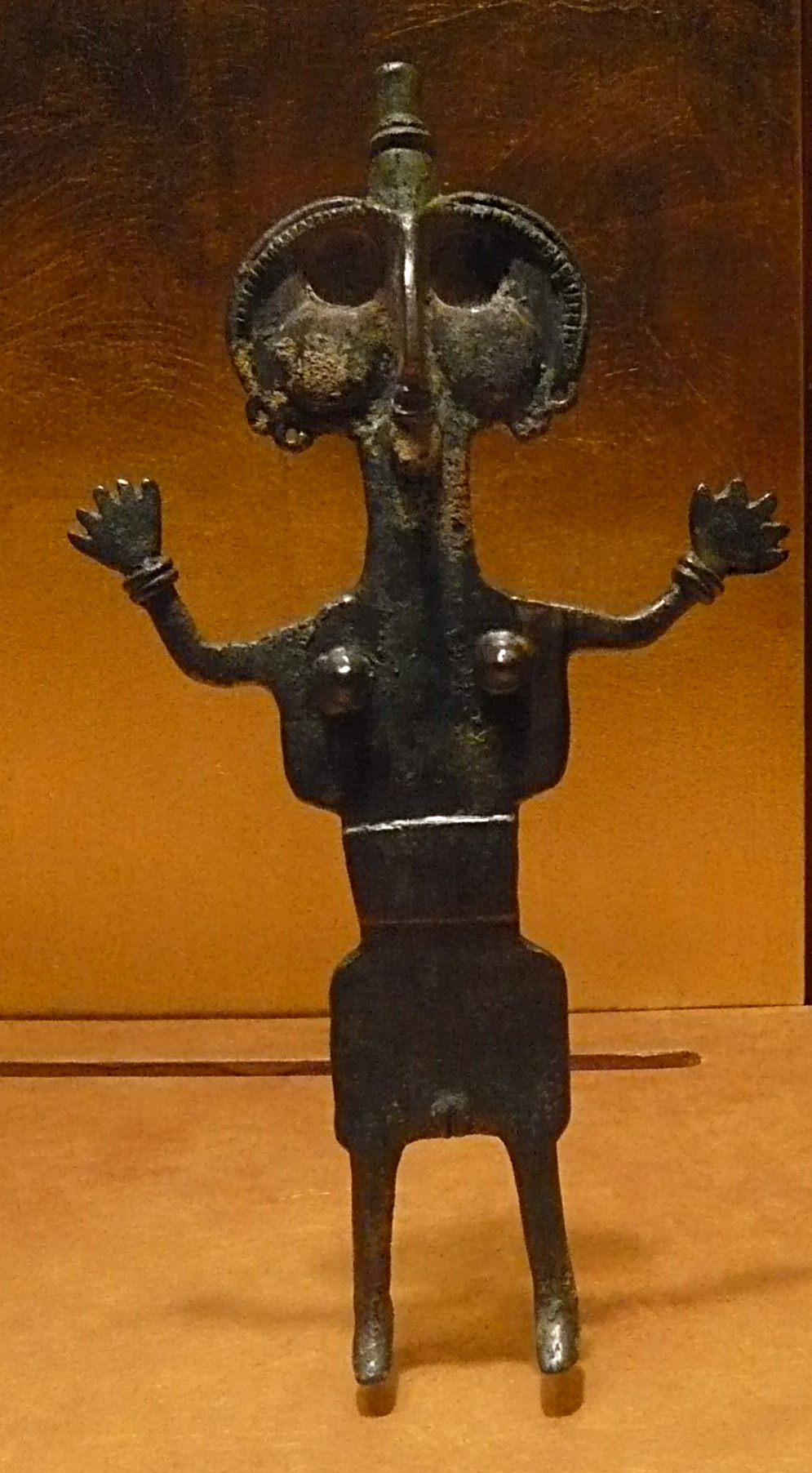 Female figure, part of Bronzes from Luristan exhibition at Cernuschi Museum, Paris.